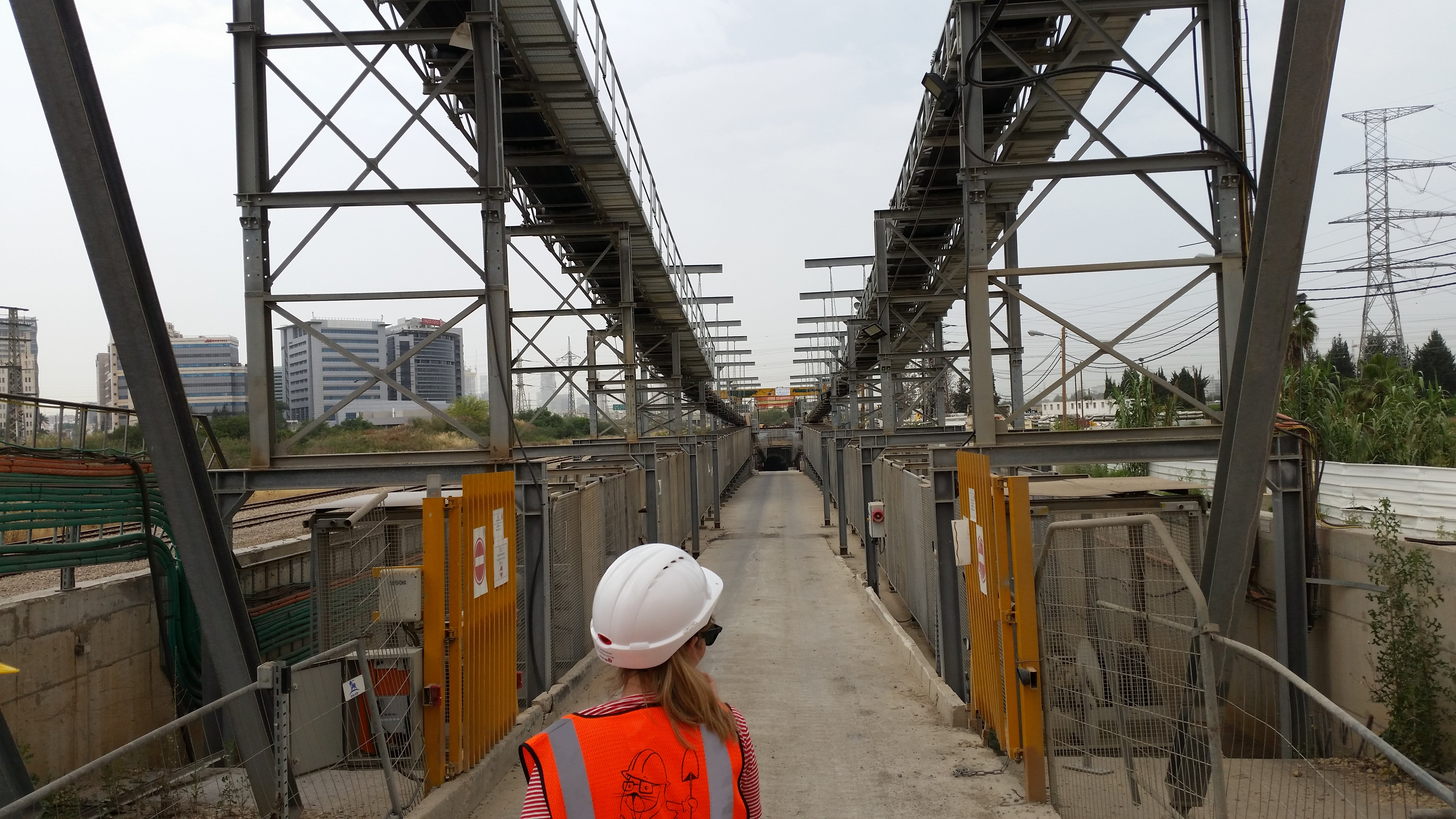 Tel Aviv Light Rail Red Line Kiryat Arie Conveyor belt